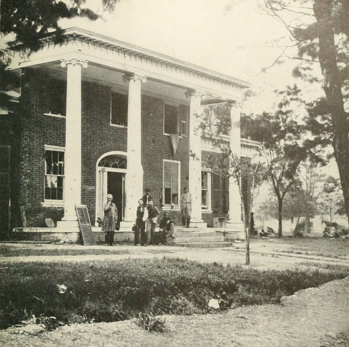 Marye's House upon Marye's Heights was the center of the Confederate position during the Battle of Fredericksburg, 1862. Confederate troop encampments are visible to the right.